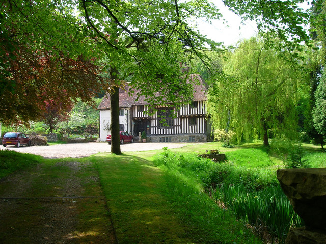 Filching Manor. Built around 1450 the grounds are now host to a Motor Museum containing, amongst other things, Donald Campbell's Bluebird.